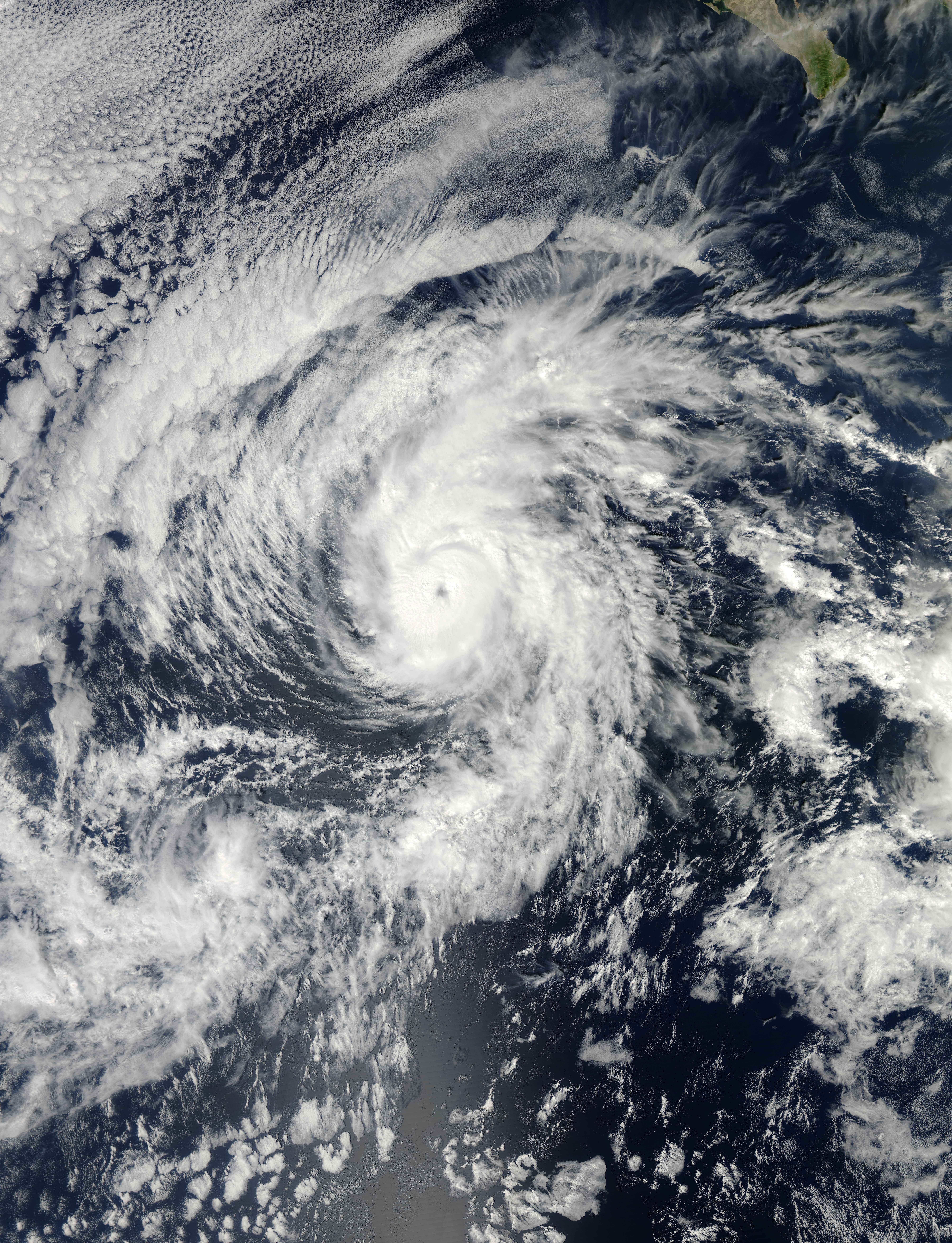 Hurricane Raymond on October 27, 2013